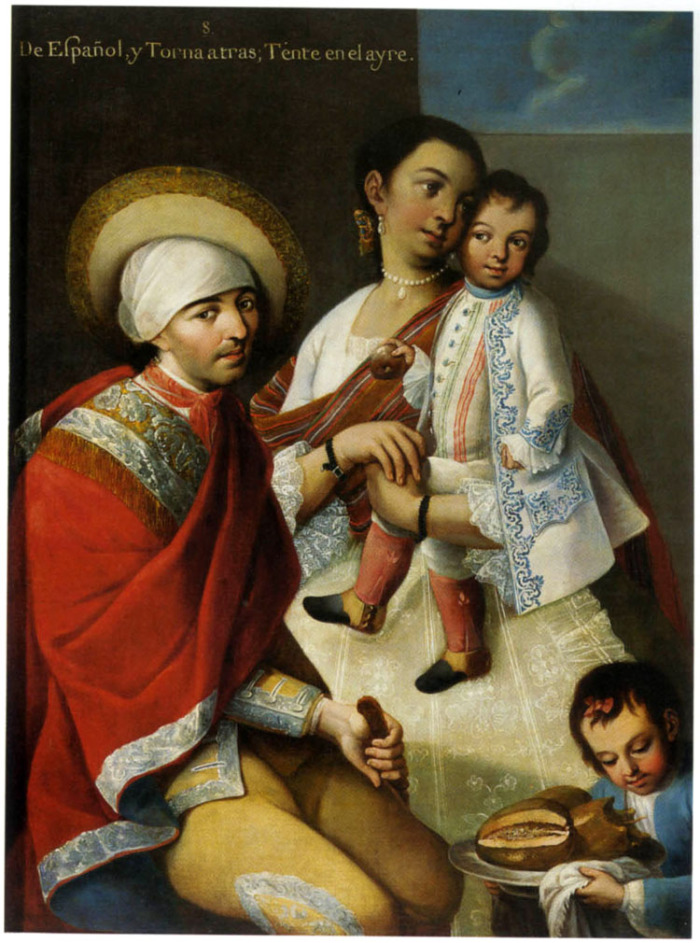 Pintura de Castas, 8. De español y torna atrás – Tente en el aire.